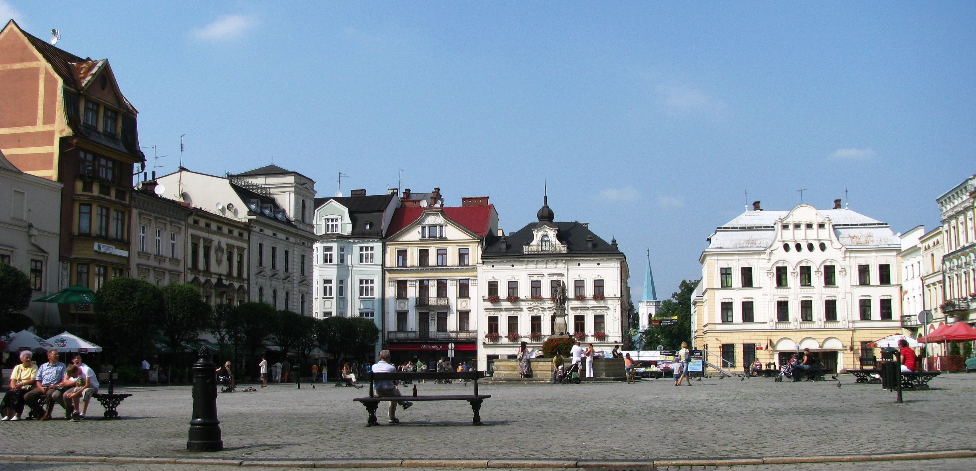 Cieszyn Market Square (Rynek) looking South-West, Poland. The Scotch Mist Gallery contains many photographs of historic buildings, monuments and memorials of Poland.